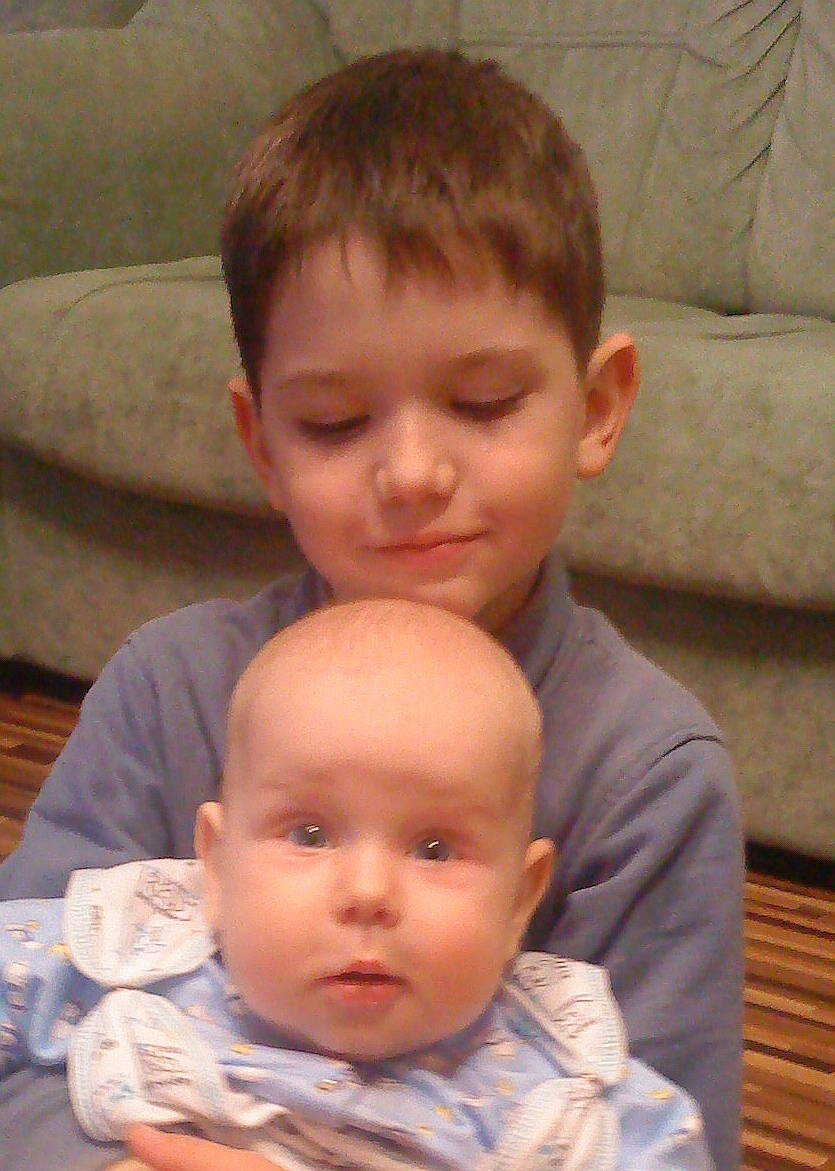 a boy with a baby